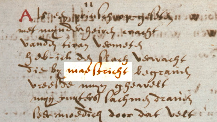 Detail of "handschrift Brussel", first documented publication of the Dutch national anthem. It is a collection of the work of Philips of Marnix, Lord of Saint-Aldegonde. This detail shows the 11th verse with the name of Maastricht highlighted, the only Dutch town to be mentioned in the anthem.